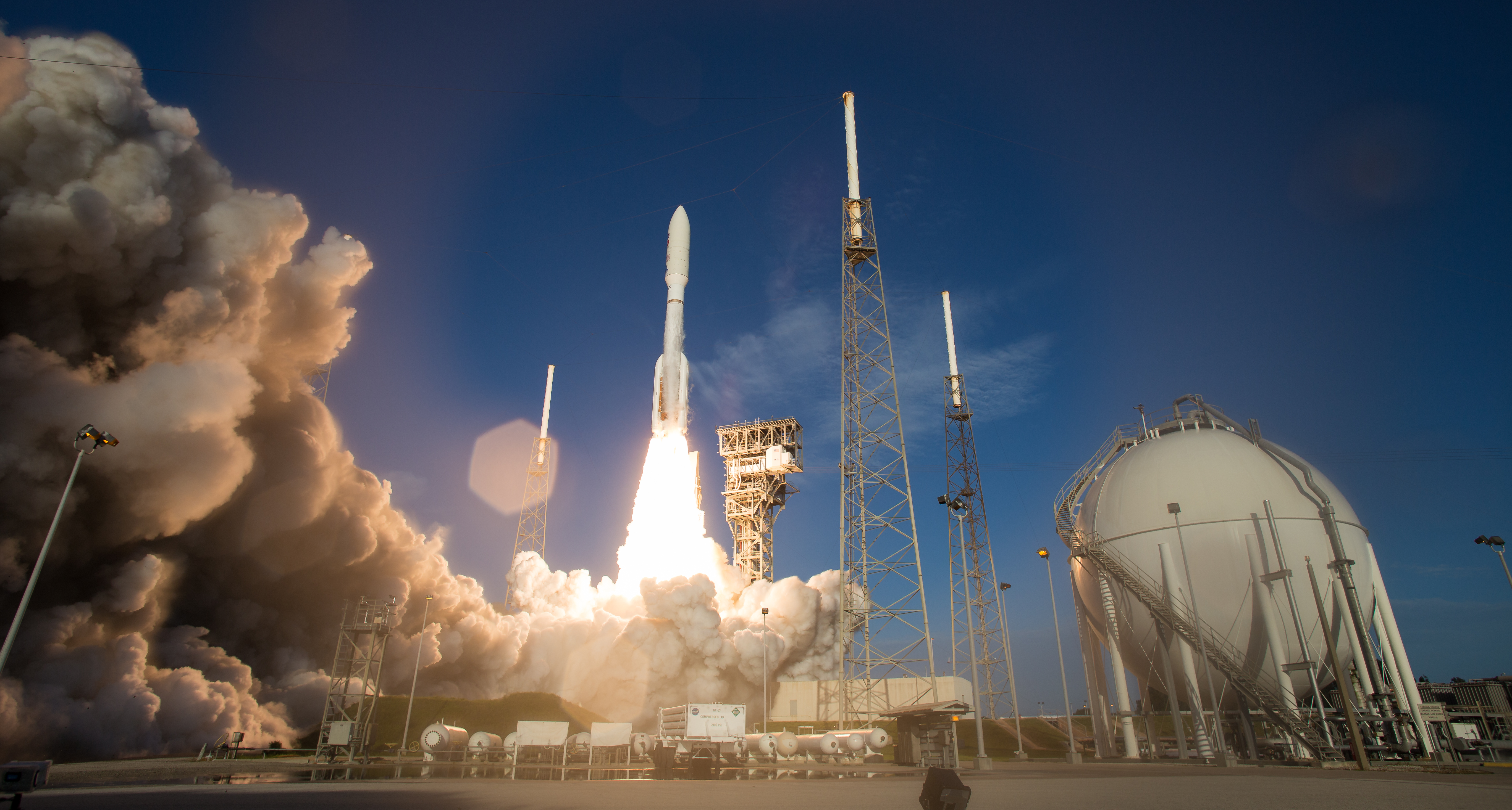 A United Launch Alliance Atlas V rocket with NASA’s Mars 2020 Perseverance rover onboard launches from Space Launch Complex 41, Thursday, July 30, 2020, at Cape Canaveral Air Force Station in Florida. The Perseverance rover is part of NASA’s Mars Exploration Program, a long-term effort of robotic exploration of the Red Planet. Photo Credit: (NASA/Joel Kowsky)